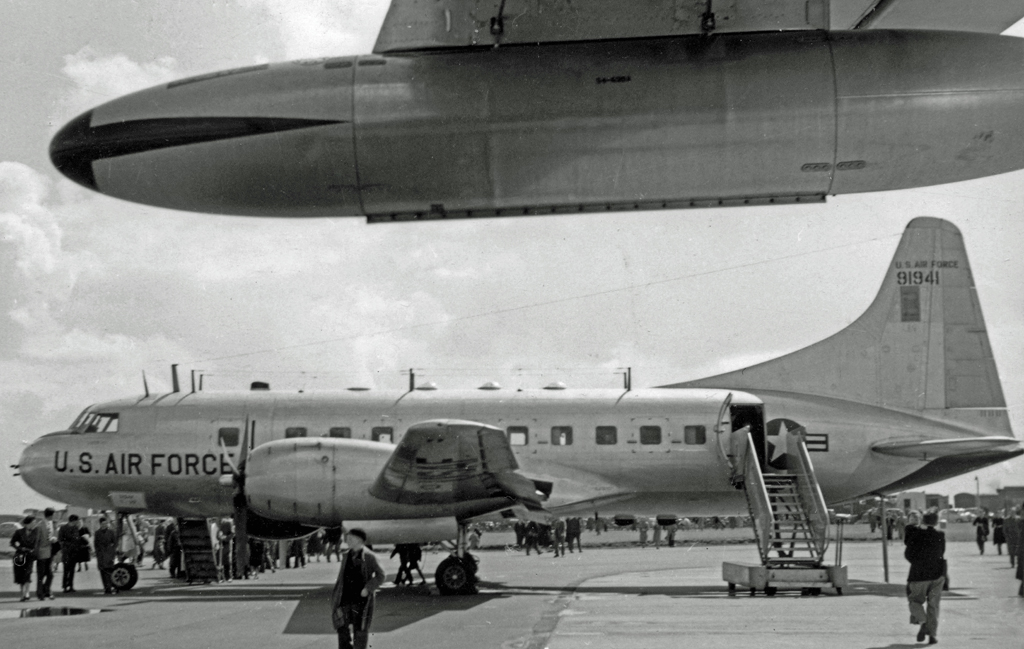 Convair T-29A navigational trainer 49-1941 of the 47 Bomb Wing RAF Sculthorpe England. Displayed at RAF Burtonwood Lancashire in 1957.